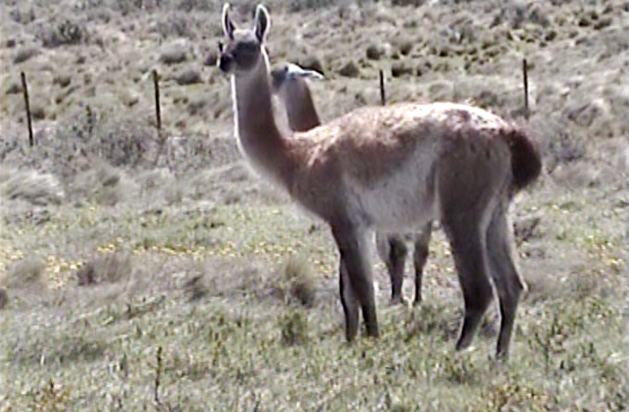 Guanacos (Lama guanicoe guanicoe) in the main island of Tierra del Fuego, Tierra del Fuego Province, in the southern Chilean region of Magallanes and Antártica Chilena.